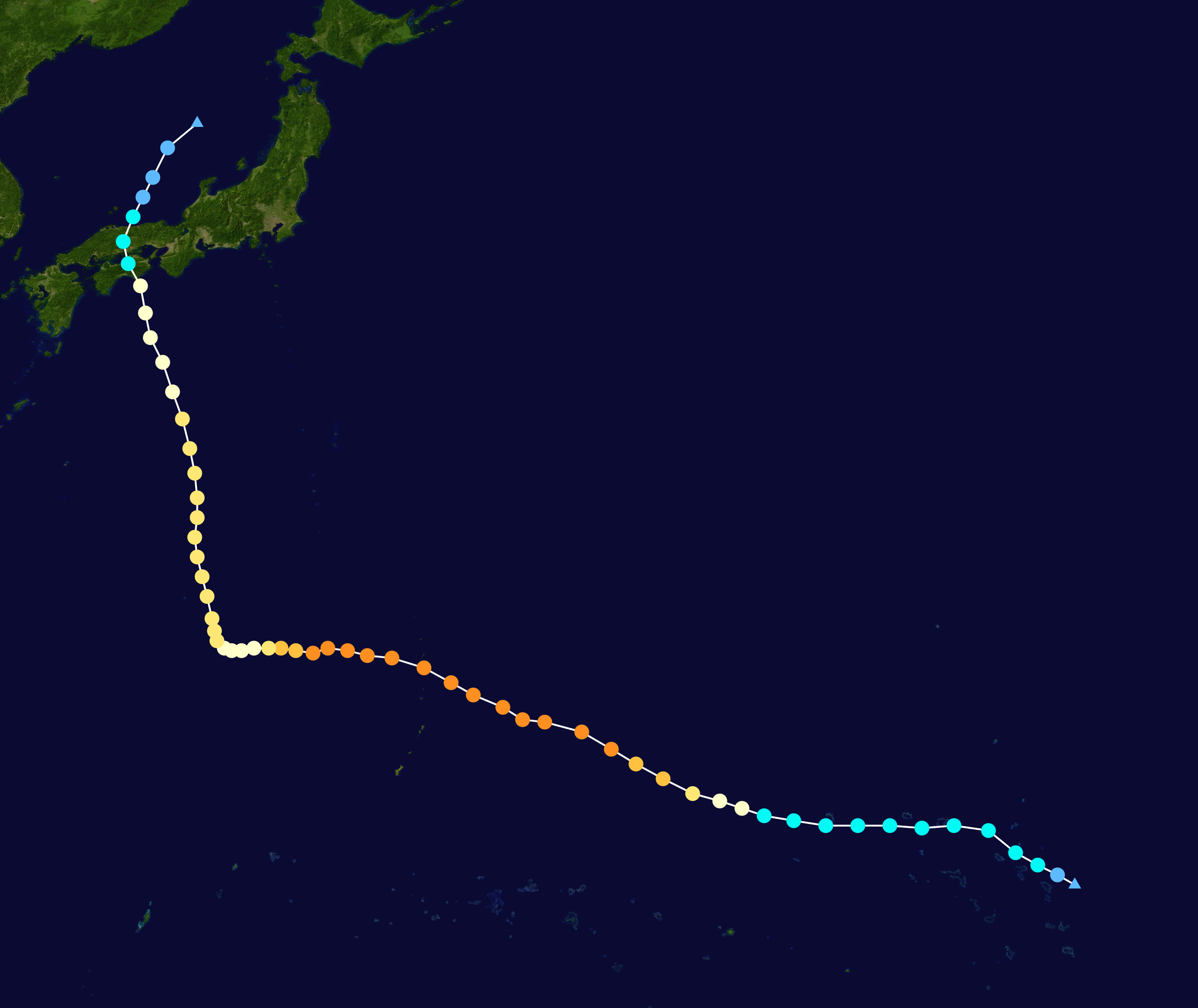 Track map of Typhoon Nangka of the 2015 Pacific typhoon season. The points show the location of the storm at 6-hour intervals. The colour represents the storm's maximum sustained wind speeds as classified in the Saffir–Simpson scale (see below), and the shape of the data points represent the nature of the storm, according to the legend below. Saffir–Simpson scale Tropical depression≤38 mph≤62 km/h Category 3111–129 mph178–208 km/h Tropical storm39–73 mph63–118 km/h Category 4130–156 mph209–251 km/h Category 174–95 mph119–153 km/h Category 5≥157 mph≥252 km/h Category 296–110 mph154–177 km/h Unknown Storm type Tropical cyclone Subtropical cyclone Extratropical cyclone / Remnant low / Tropical disturbance / Monsoon depression